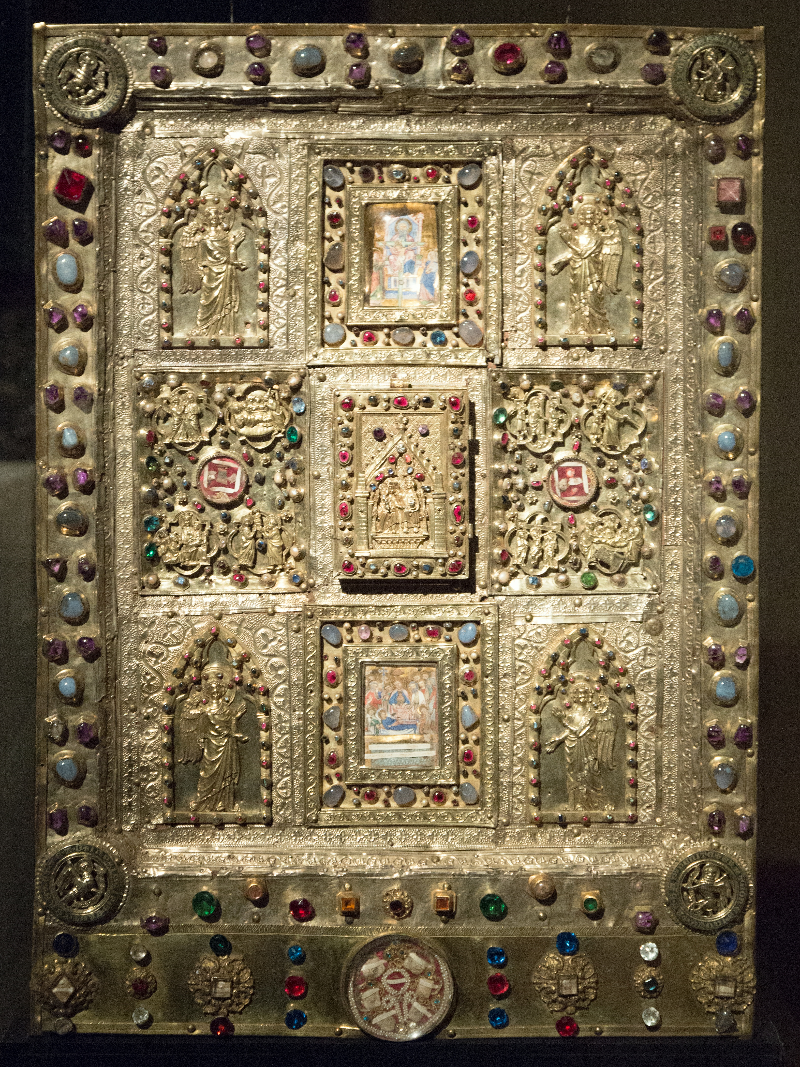 Reliquary panel from the Benedictine Convent of St George at Prague Castle (I). The Meuse or Rhine region, 1280-1300, Bohemia after 1300, additions after 1330 and circa 1800; oak wood, gilded silver, gilded copper, niello, parchment, fabric, rock crystal, pearls, gemstones. Prague, The Royal Canononny of Premonstratensians at Strahov, Inv. No. 1310.